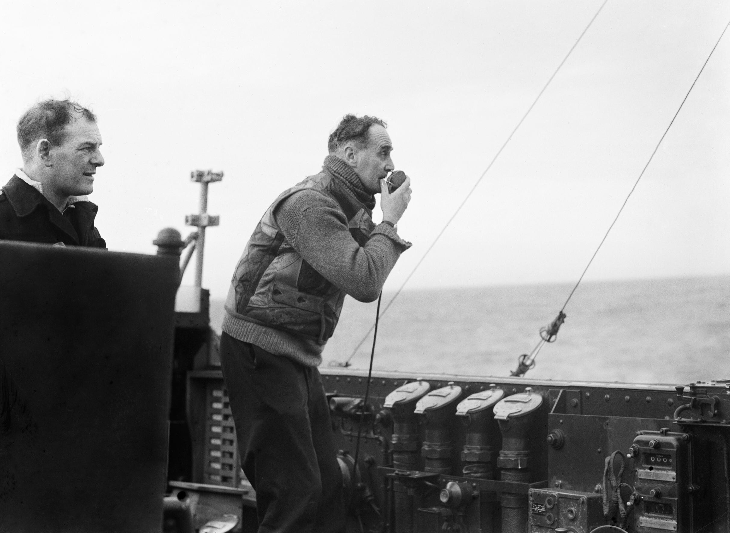 Out With U-boat Killer Number 1; the Second Escort Group's Success. 26 January To 25 February 1944, on Board HMS Starling. With the 2nd Escort Group, Commanded by Captain F J Walker, Cb, Dso and Two Bars, on His Most Recent and Most Successful Patrol. Three of the Group's Six U-boat "kills" Were Made Within 16 Hours. The sloop WOODPECKER goes into the attack and Captain Walker shouts encouragement to her through the loud hailer.